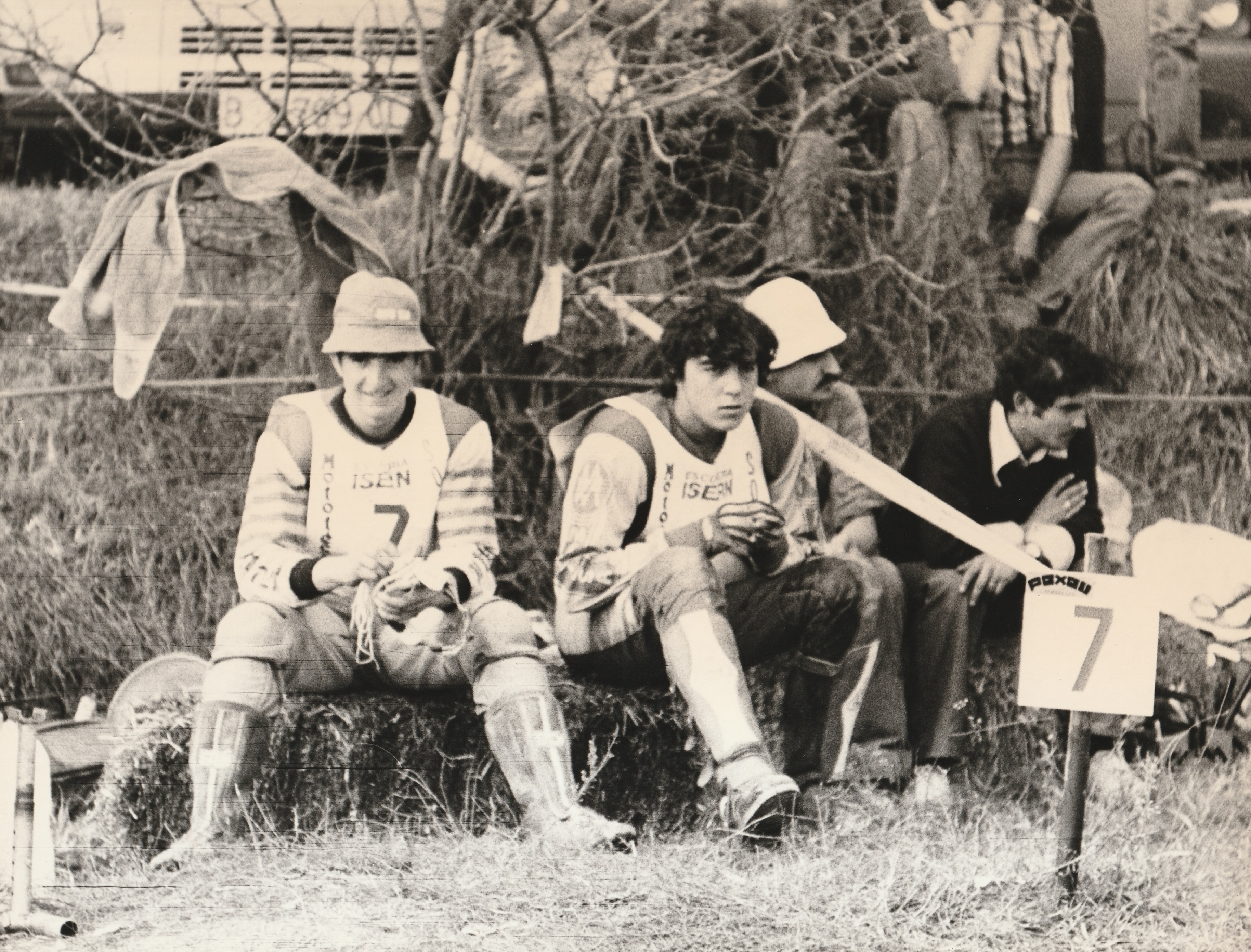 From left to right: Toni Arcarons and Ramon Ramon, at parc fermé during the 1977 150 Milles de Mollet, where they shared team with number 7.